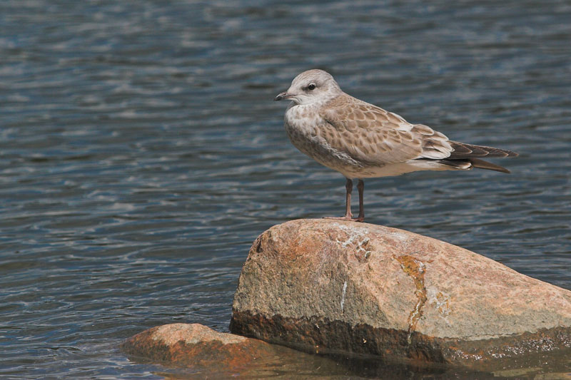 A juvenile Common Gull Larus canus on a stone. Photo by Thermos.